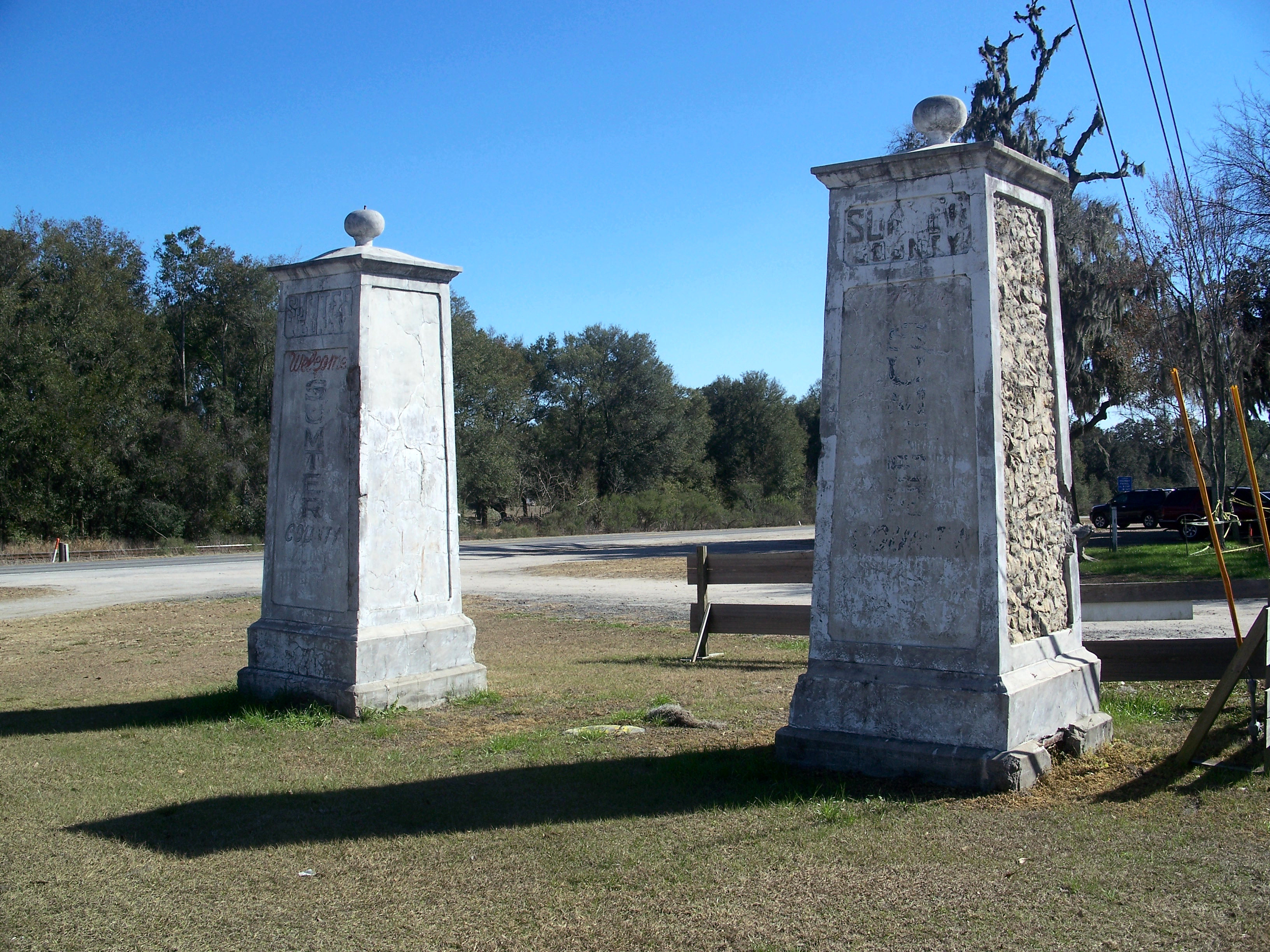 Marion County, Florida/Sumter County, Florida: Concrete posts next to U.S. Route 301. Says "Welcome to Sumter County" on the north side. Very likely this was the original path of the road back in the day.